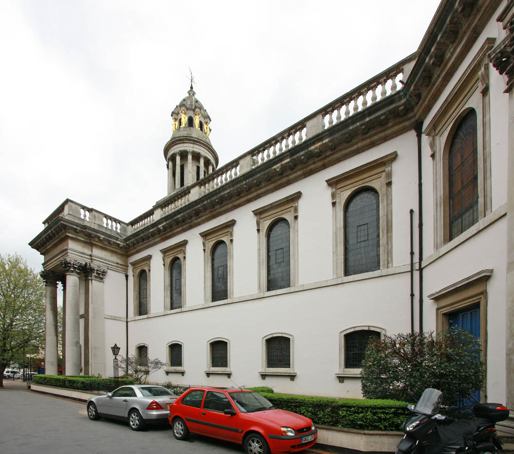 St Marylebone, Marylebone Road, W1, near to Marylebone, Westminster, Great Britain.